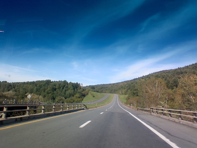 Southbound I-93 at Hudson Road, St. Johnsbury, VT, looking southeast.